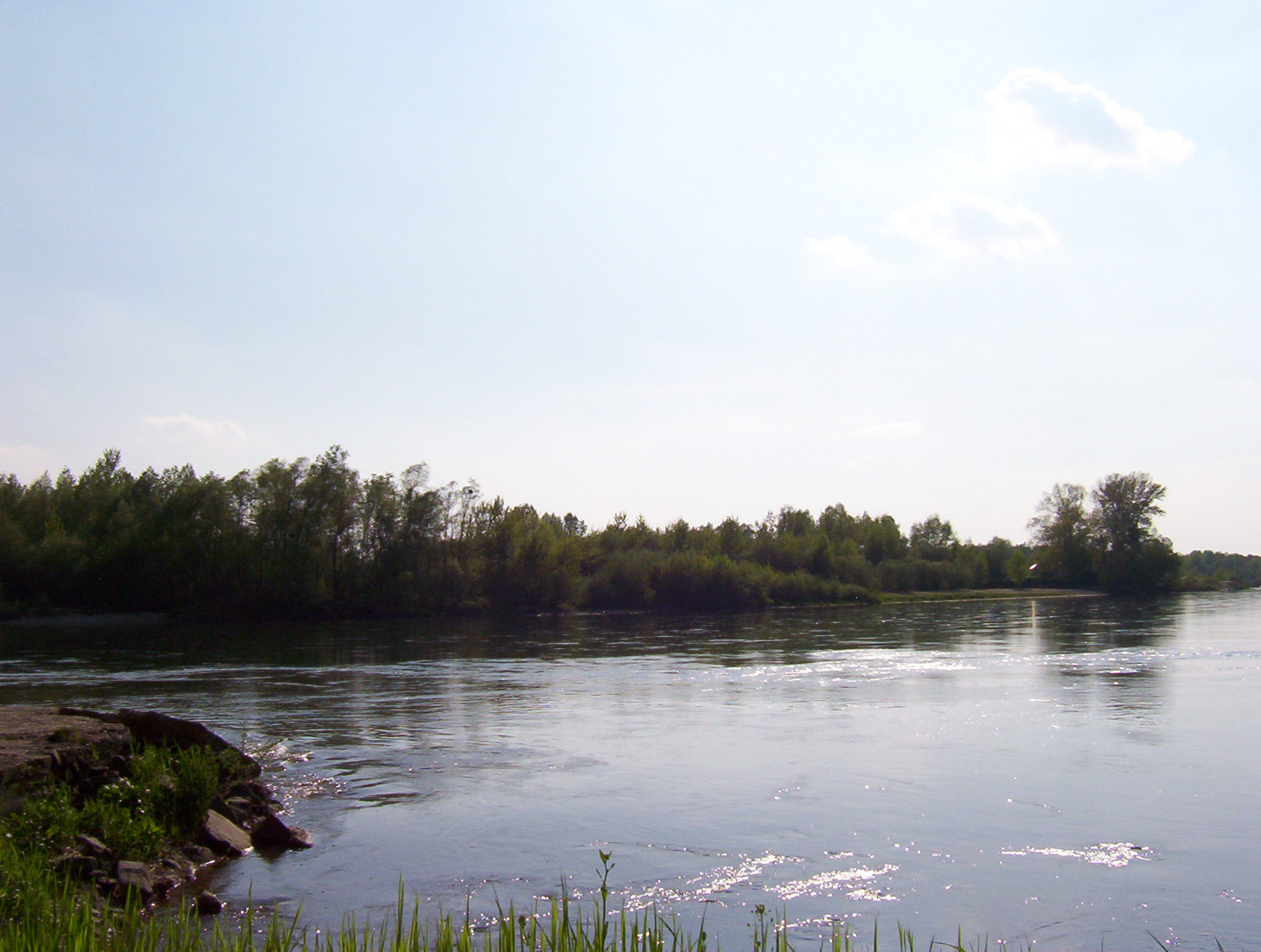 The river Drava (Hungary, County of Somogy)